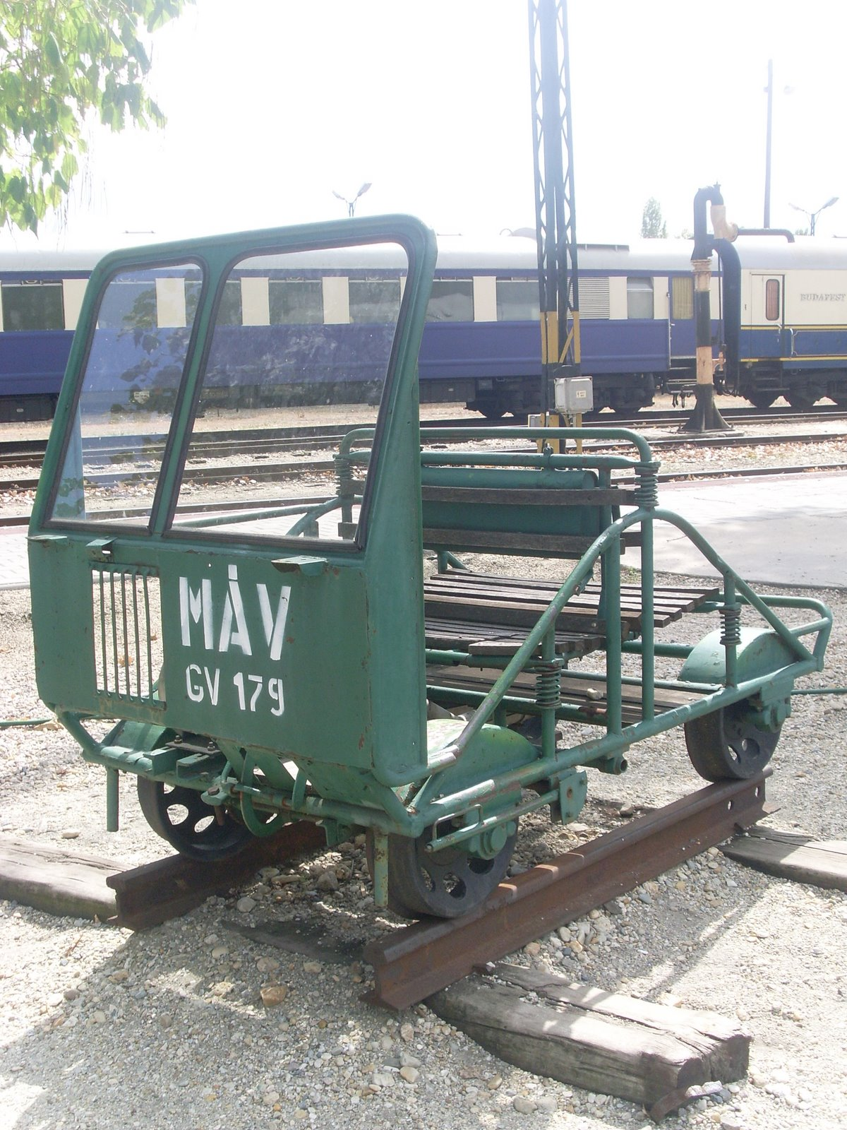 Vasúttörténeti Park